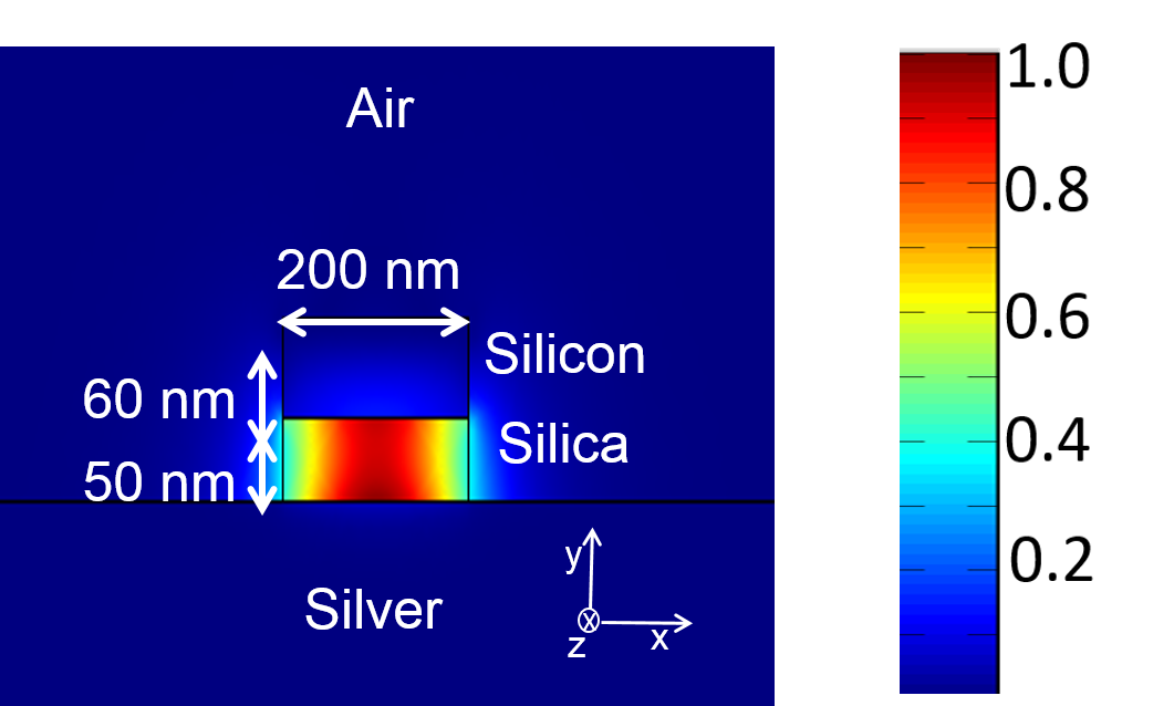 Field profile of a hybrid plasmonic waveguide